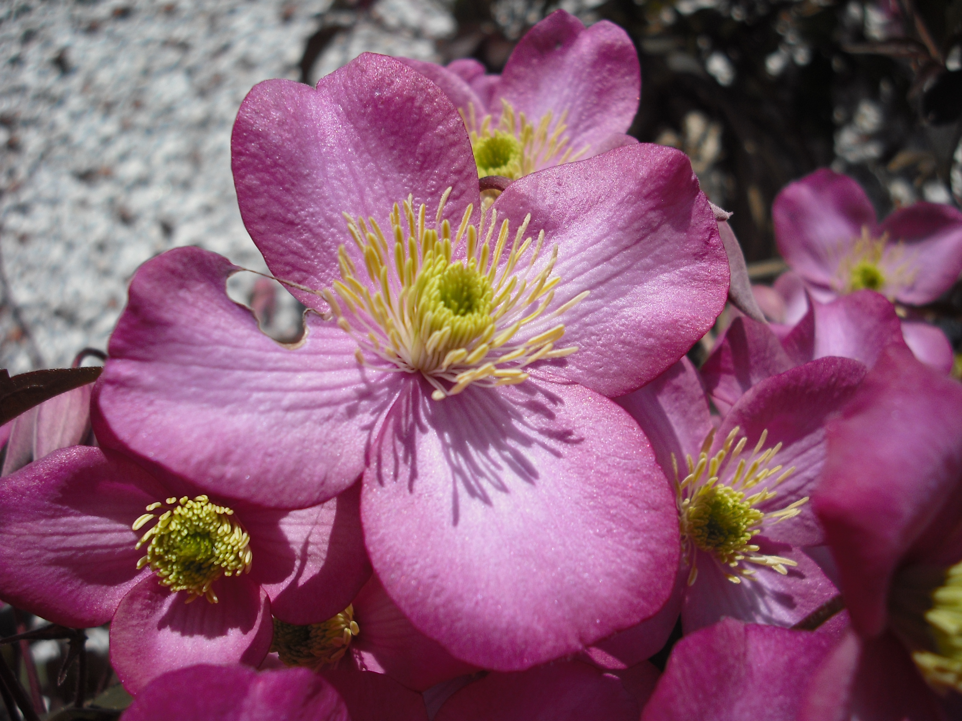 Photo of a Clematis montana "rubens" (pink variety) flower in my garden.